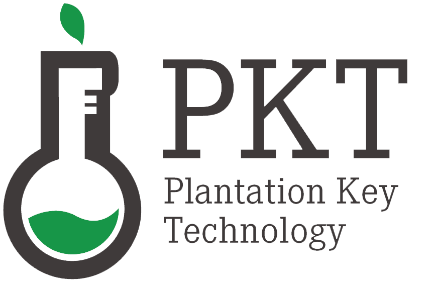 Logo PT. Propadu Konair Tarahubun